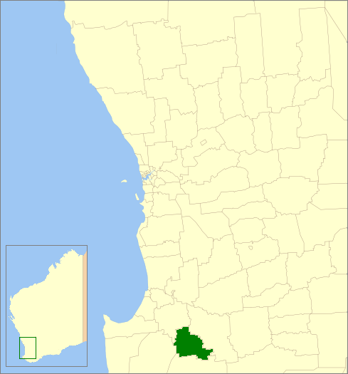 Description=Location of the Local Government Area in Western Australia